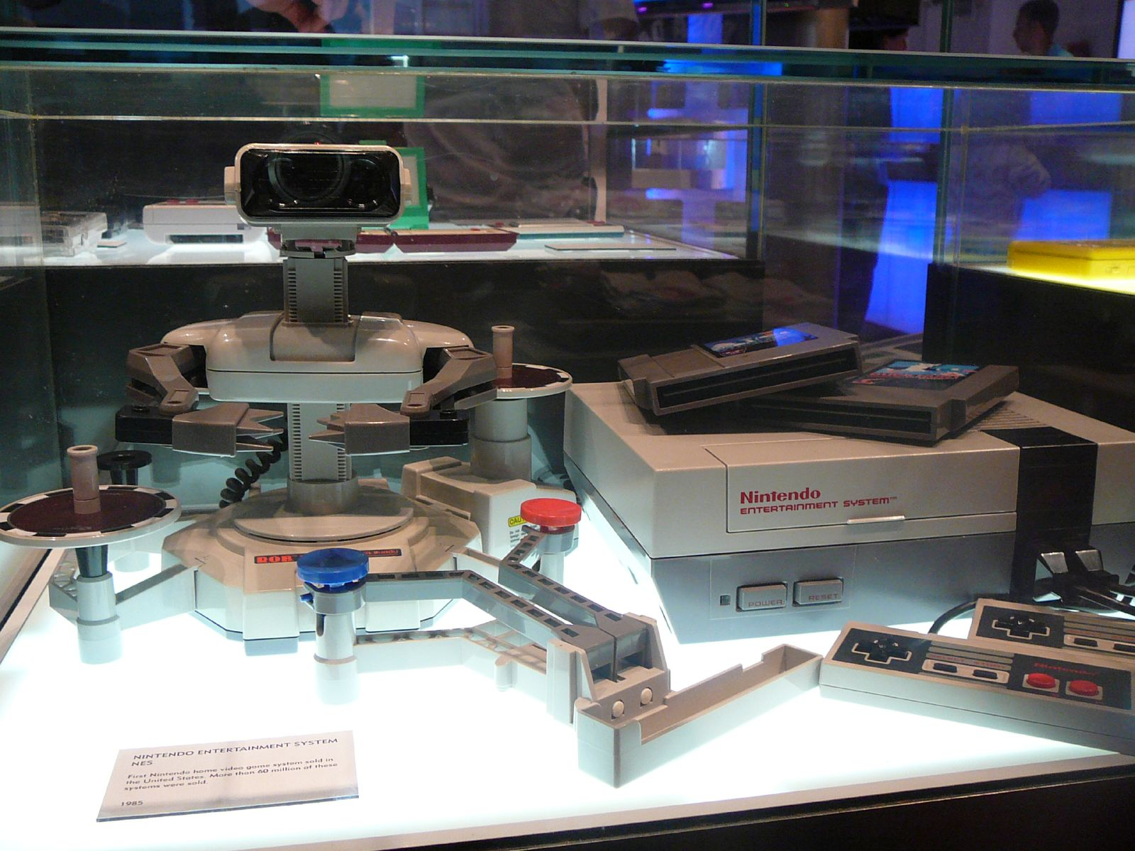 The first Nintendo home video game system sold in the United States, as displayed at the Nintendo World Store in New York City. The system included a Nintendo Entertainment System Control Deck, two NES Controllers, a R.O.B. (Robotic Operating Buddy), an NES Zapper light gun, and the Game Paks Gyromite and Duck Hunt. The Zapper is not featured in the display.